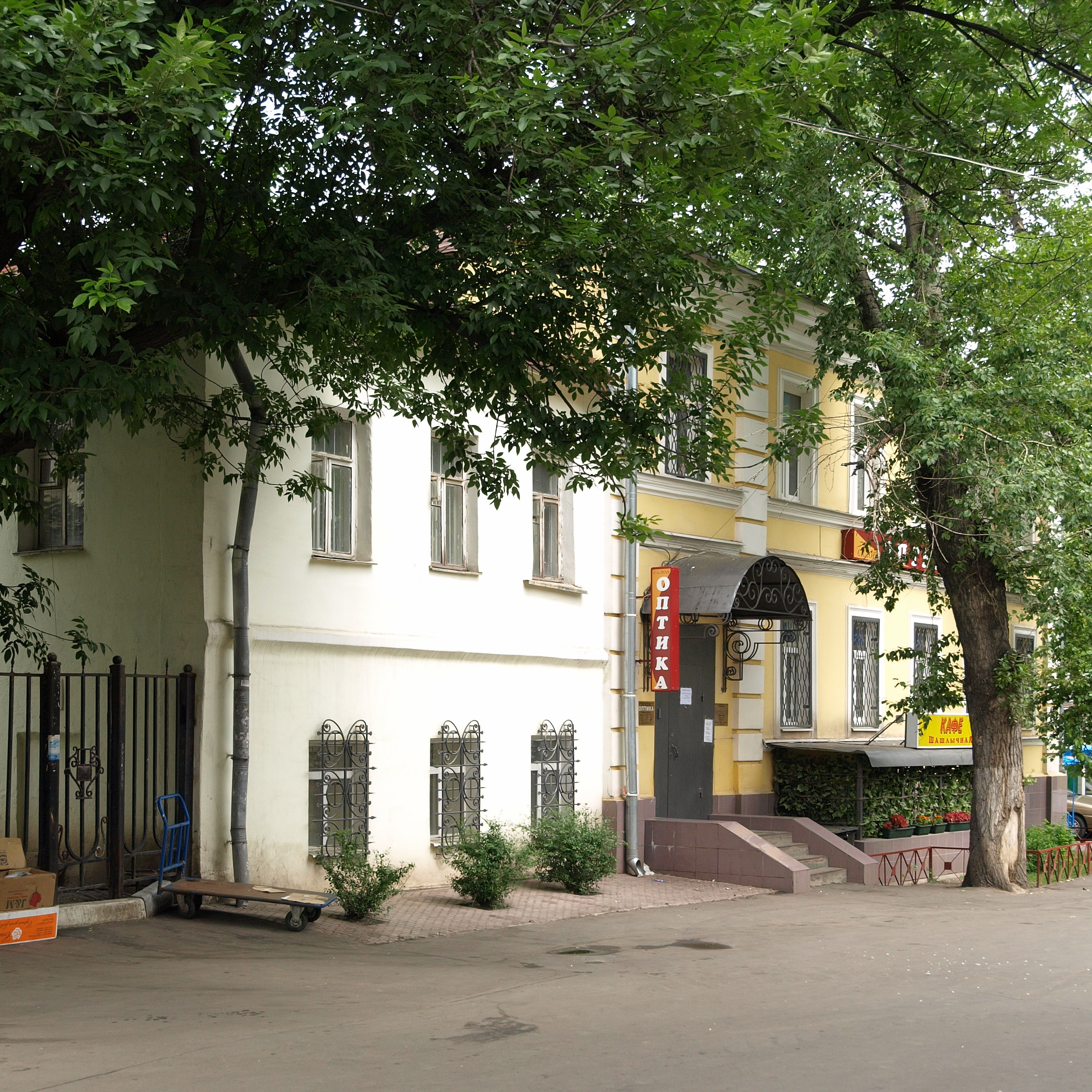 Pyatnitsky Lane, Moscow (western side, facing Novokuznetskaya metro